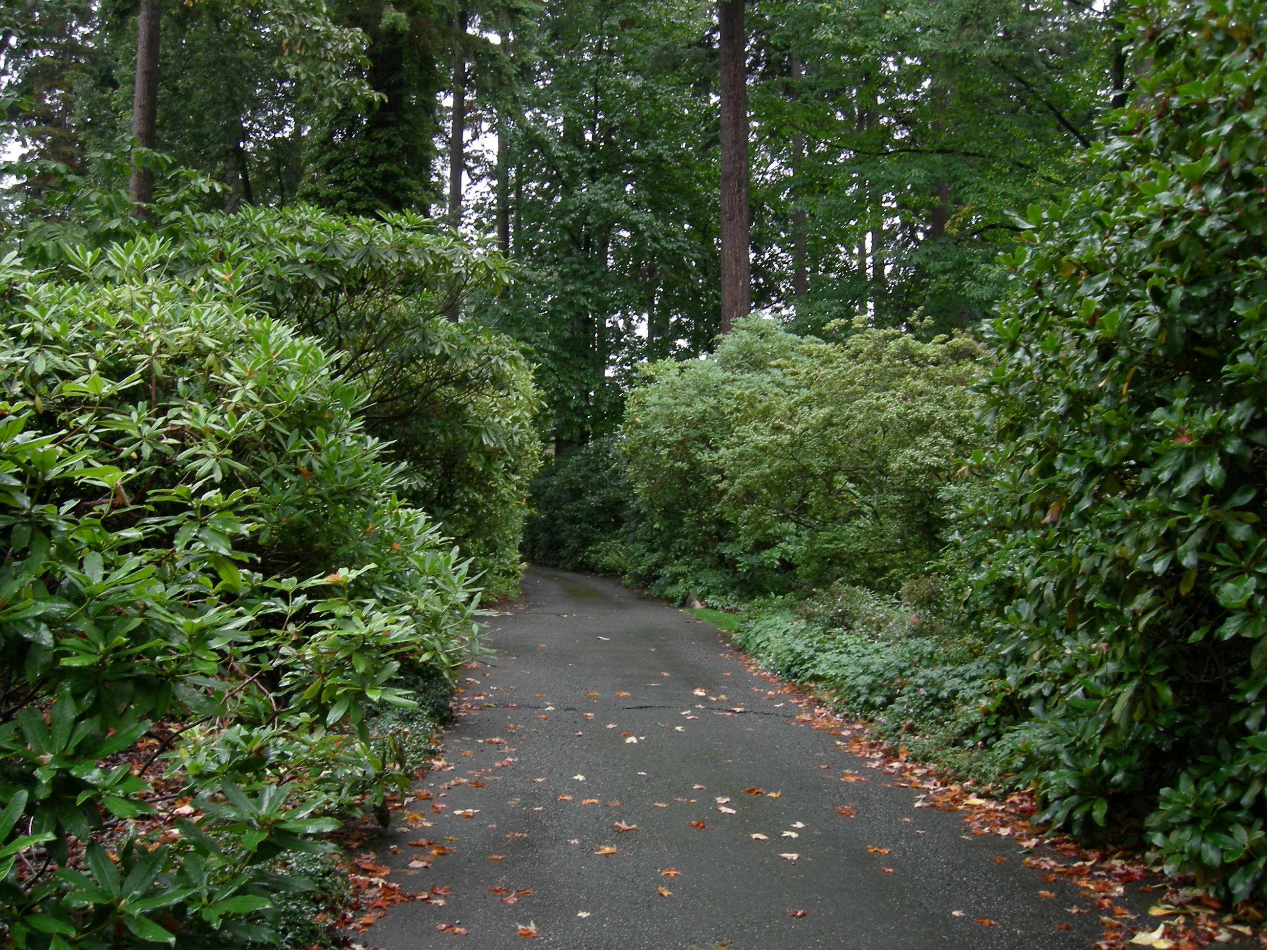 The 10-acre Dunn Gardens, 13533 Northshire Rd. NW. in a rather suburban part of northwest Seattle, Washington, USA were designed by James Frederick Dawson of the Olmsted firm. They remain in the hands of the Dunn family, and are listed in the National Register of Historic Places, ID #94001435.